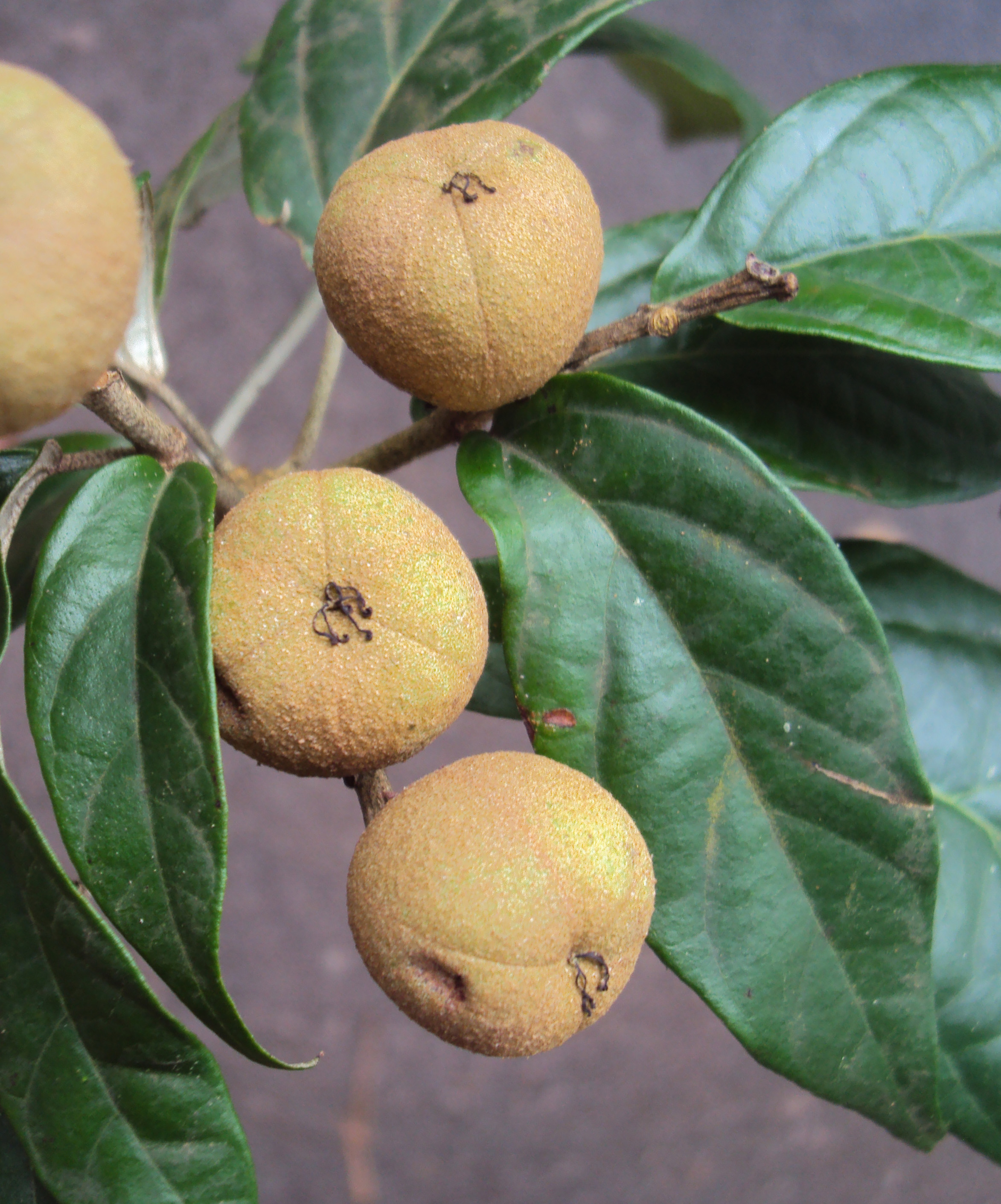 Croton malabaricum